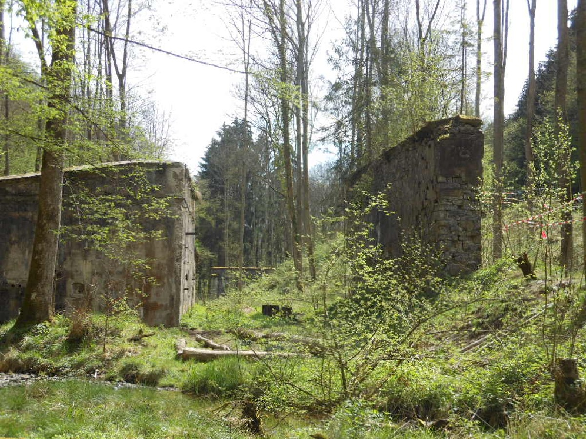 Pulvermühle Elisenthal